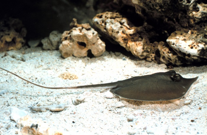 Atlantic stingray (Dasyatis sabina) in an aquarium.